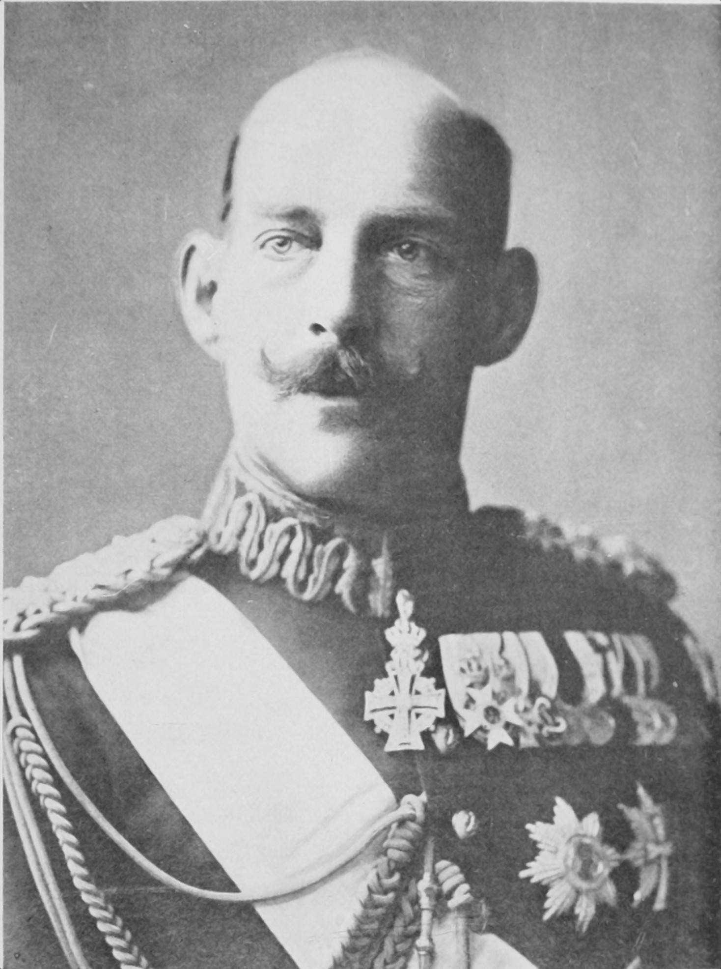 Constantine I, King of the Hellenes (1868-1923)